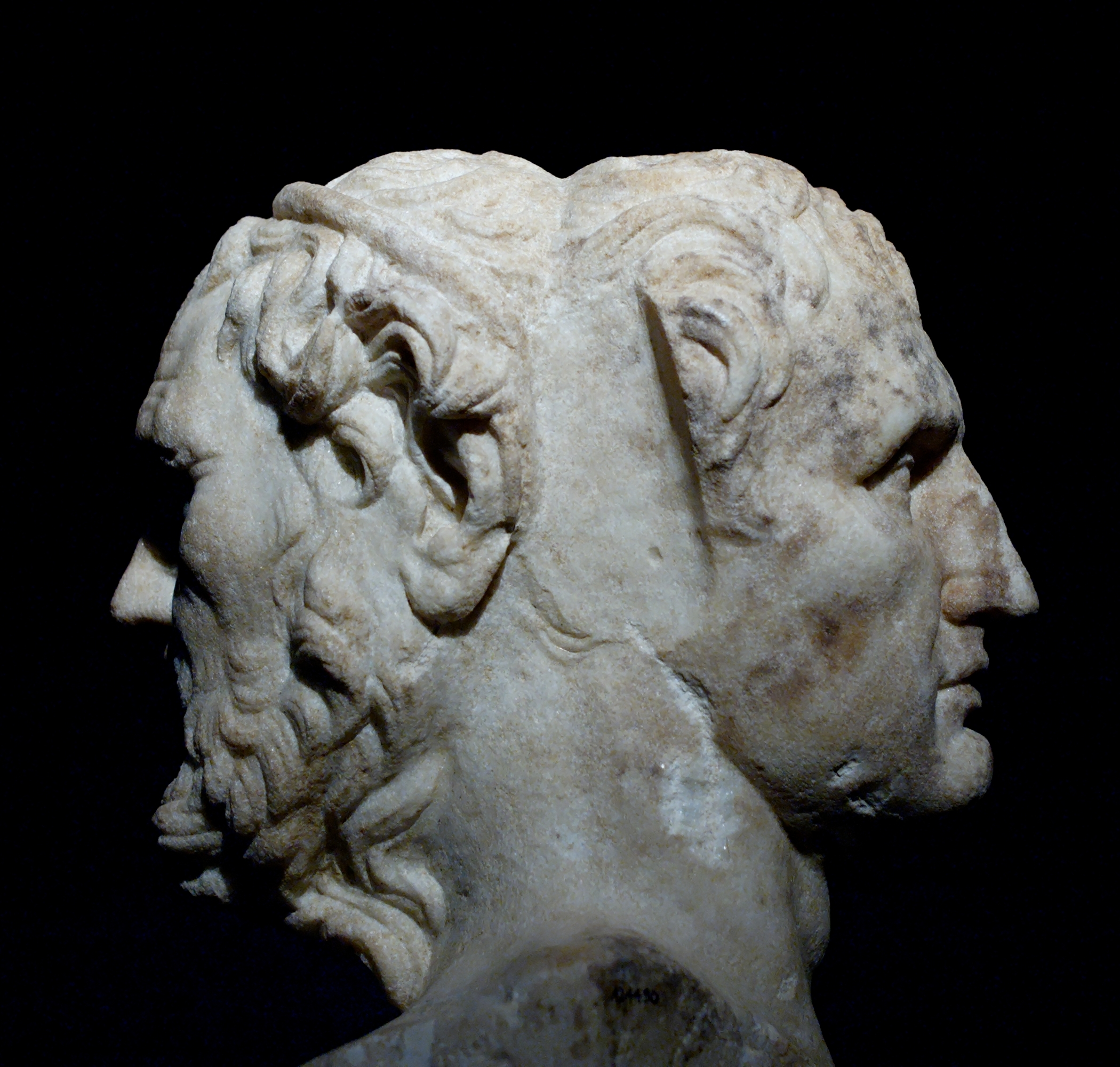 Double herm of Homer (Apollonius of Tyana type) and Menander. Pentelic marble, Roman copy from the Neronian or Flavian period after a Hellenistic originals. From the Barbuta area in Rome.